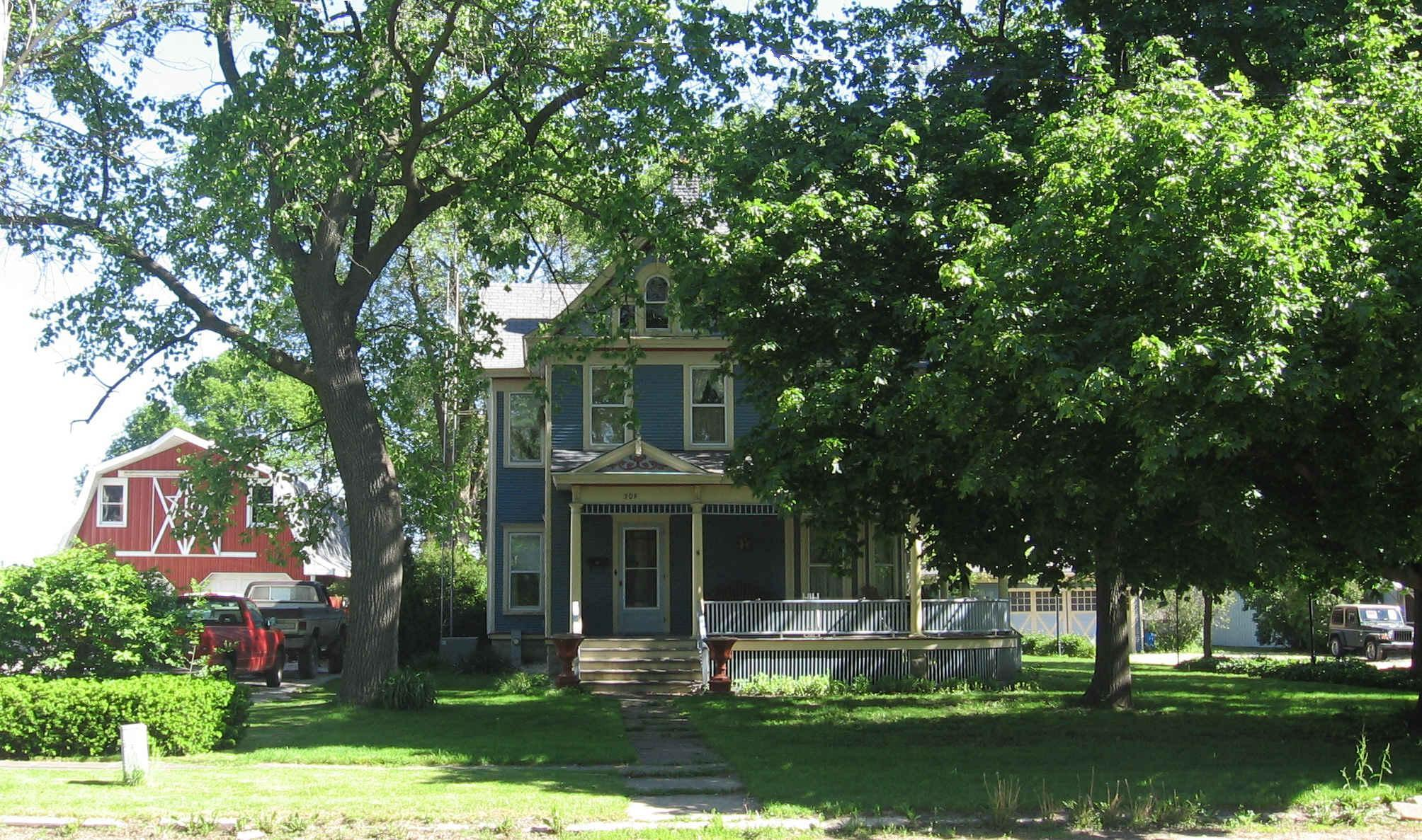 Hambleton Street, Grant Park, Illinois